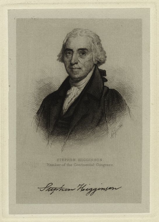 Stephen Higginson, Delegate to Continental Congress